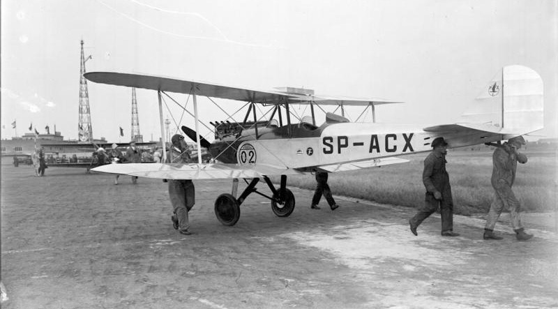 Polish PZL-5 aircraft of Bolesław Orliński before the Challenge 1930 contest